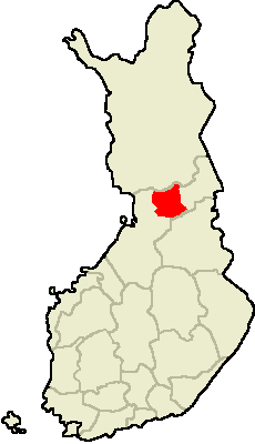 I'm the author, based on a blank map